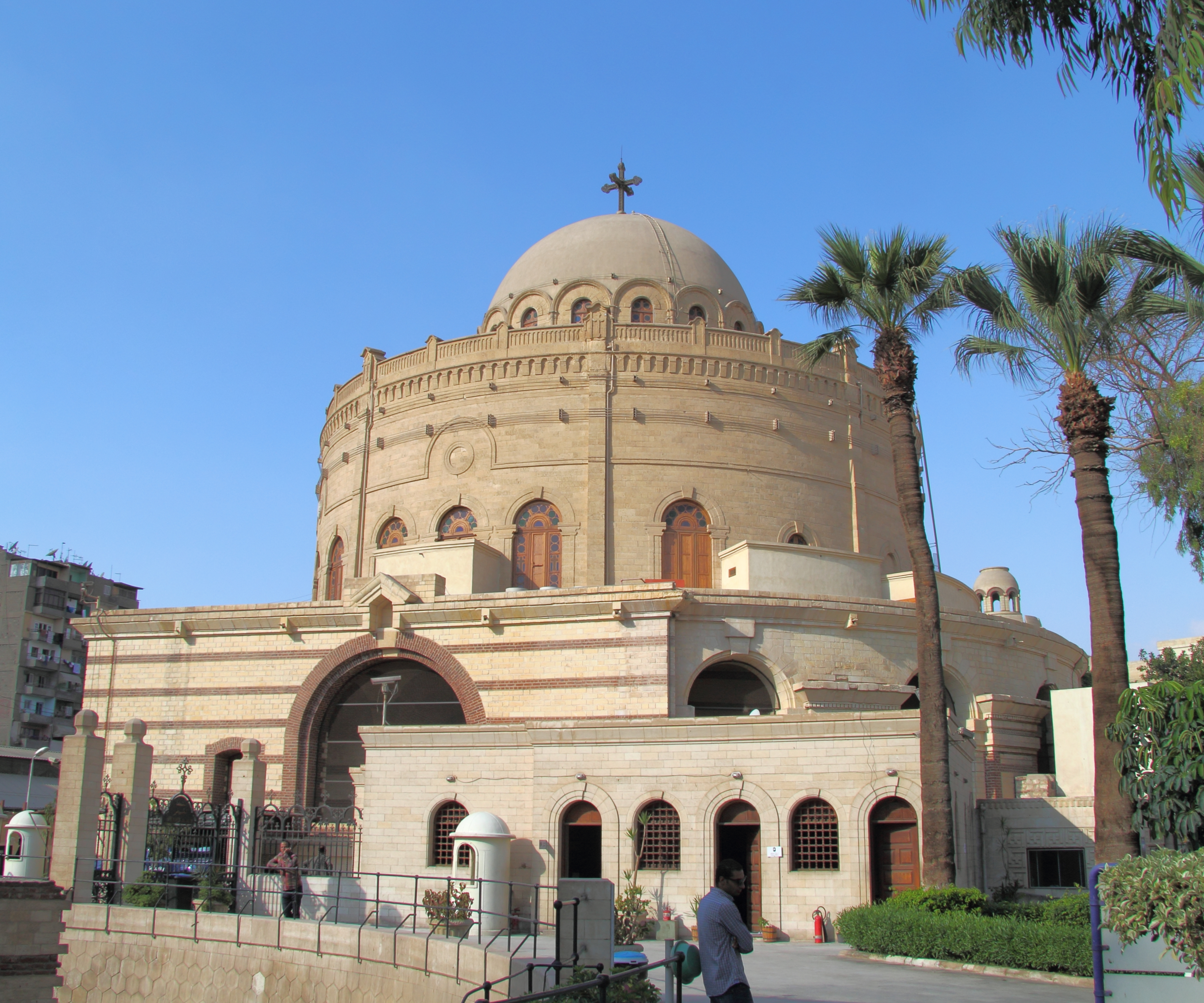 Old Cairo: Greek Orthodox Church of St. George (Cairo) in Babylon Fortress in Egypt